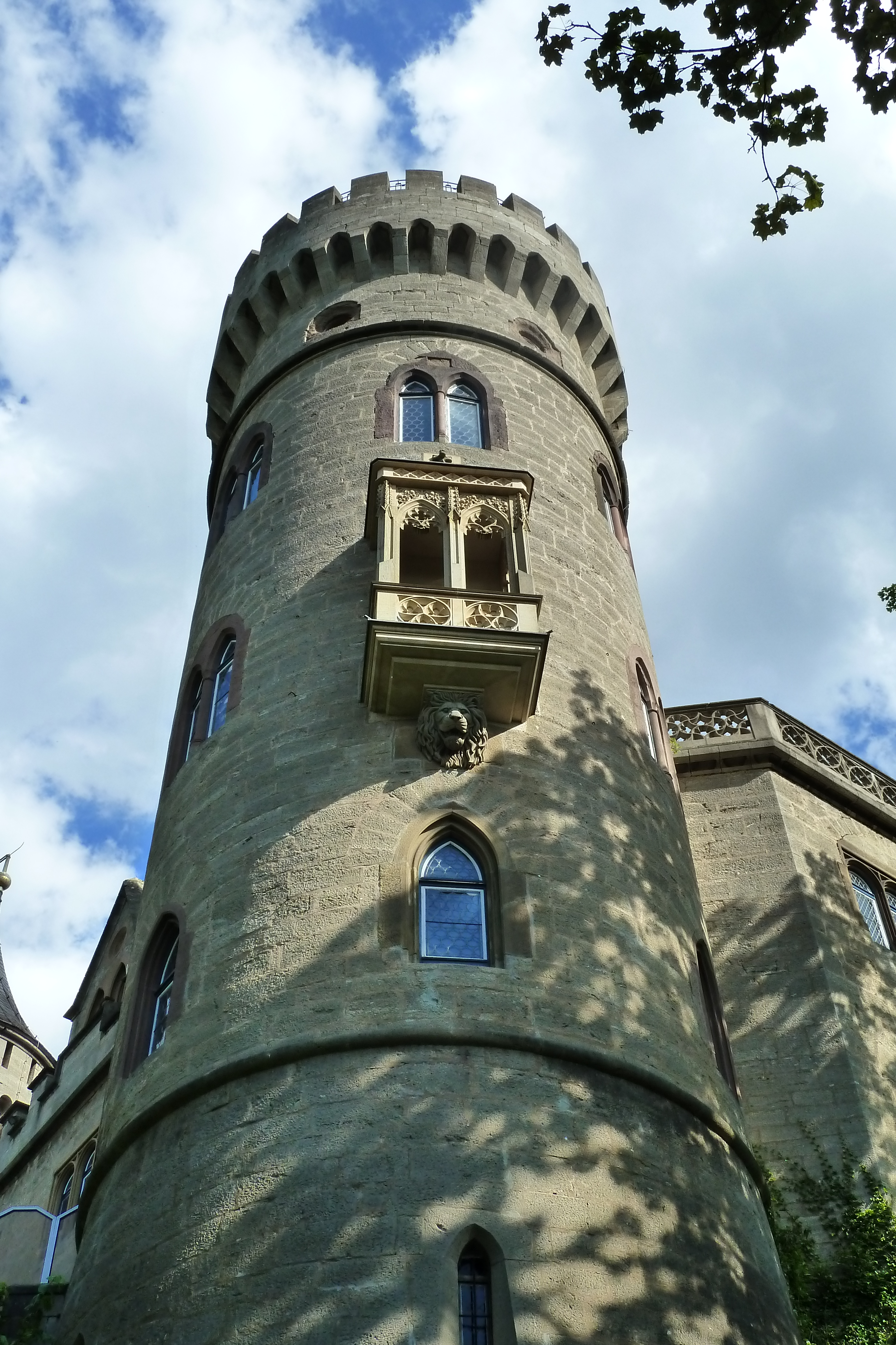 Headtower of castle Schloss Landsberg in City Meiningen, germany